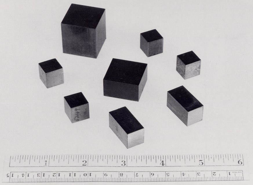 Cubes and cuboids of uranium photographed in the 1940s